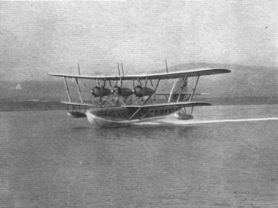 The Short S.8 Calcutta taxiing on water.